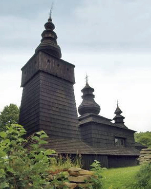 wooden church